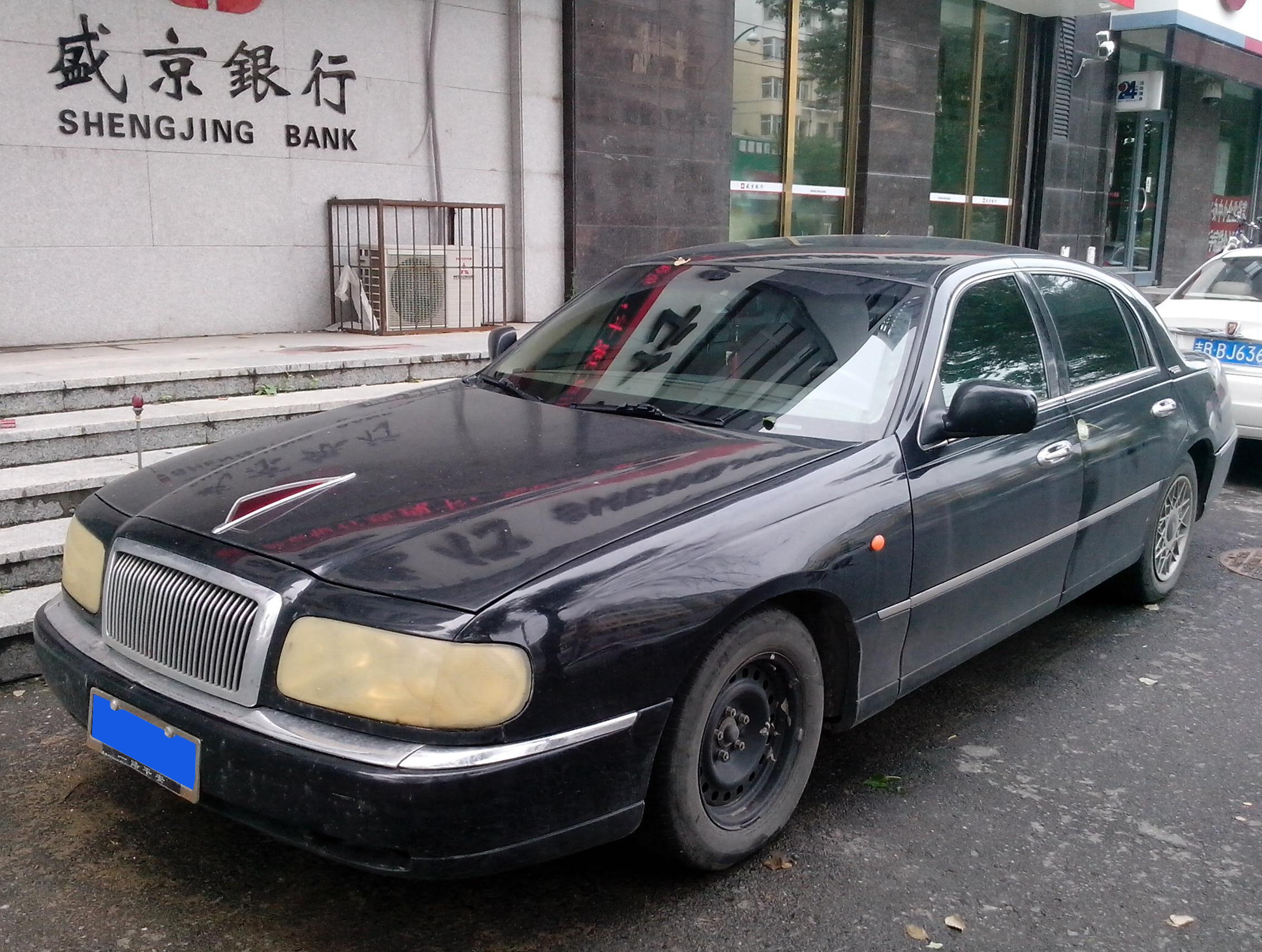 A Hongqi CA7460, produced by Changchun FAW OEM Lincoln Town Car compared to the prototype car, CA7460 changed the shape of the front light clusters have also been changed, while increasing the side turn signals, to meet the Chinese vehicle lighting regulations..